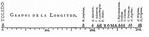 First graphical representation of statistical data by Flemish cartographer Langrenus- longitudinal distances from Toledo in Spain to Rome in Italy.